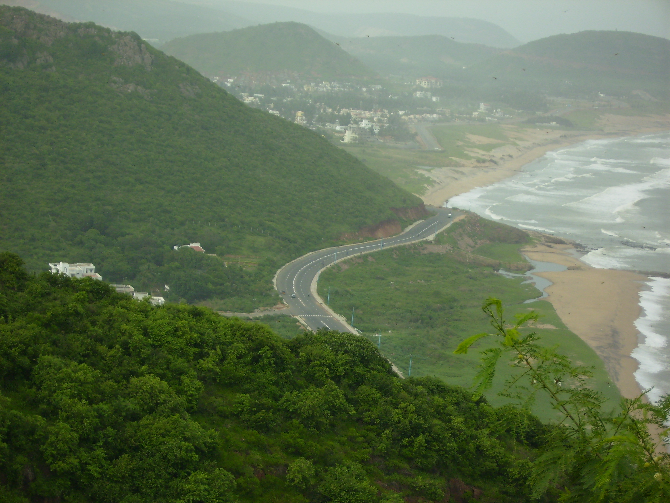 Visakhapatnam, Beach Road from Kailashagiri